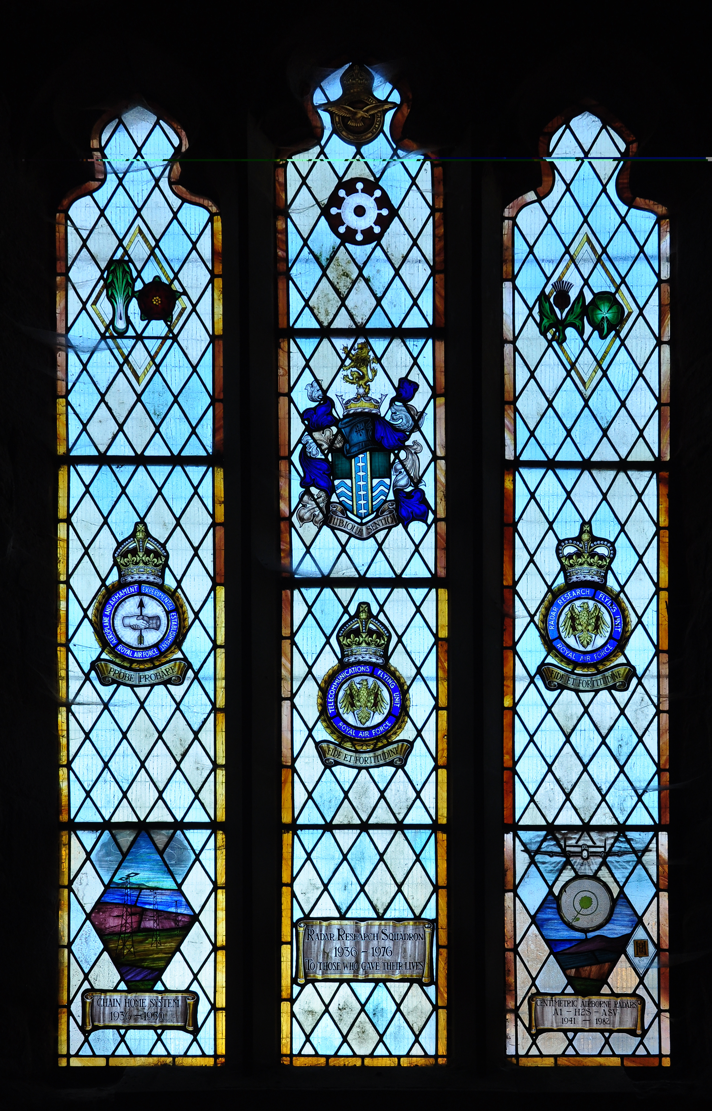 A memorial window in the chapel of Goodrich Castle in Herefordshire.